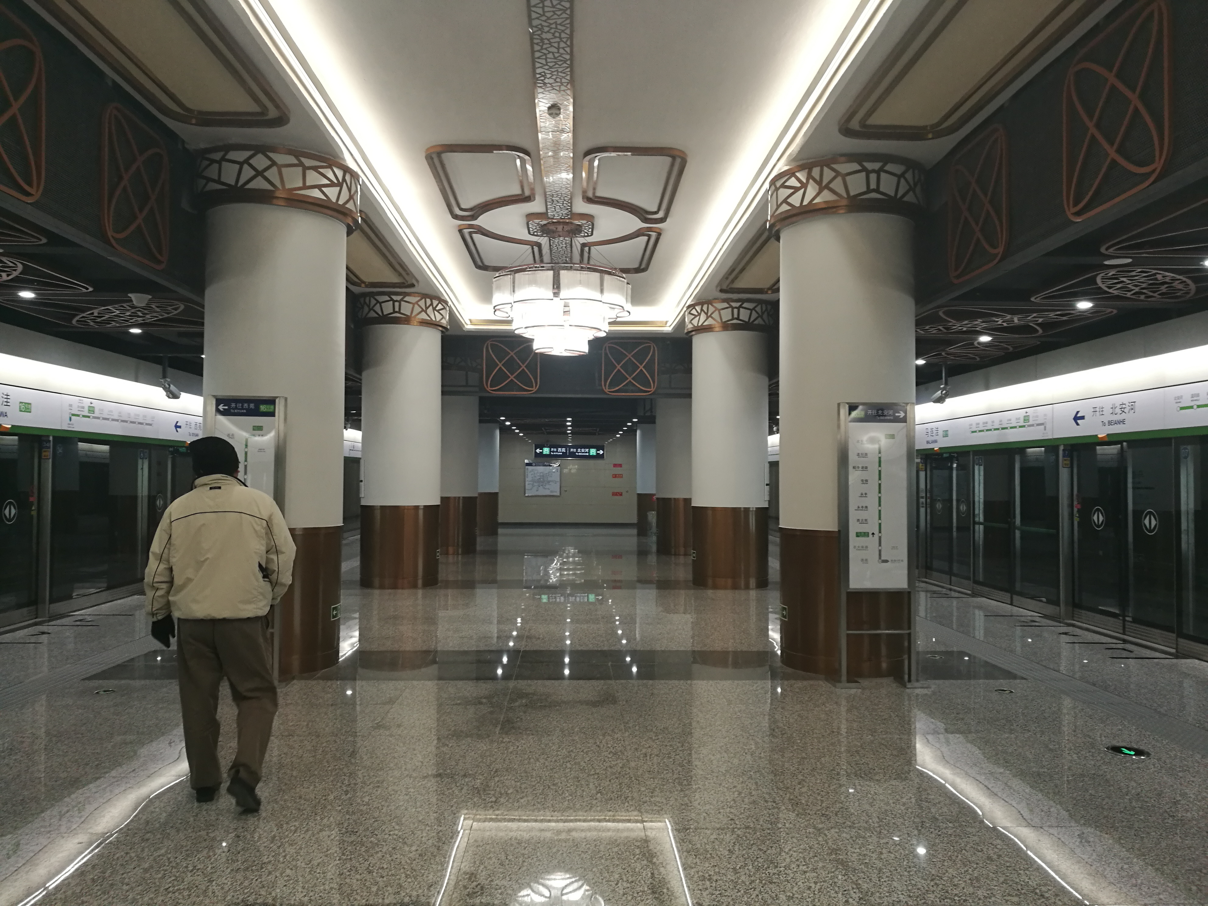 Platform floor of Malianwa Station on Beijing Subway Line 16, Haidian, Beijing